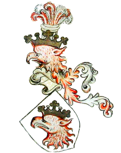 Arms of Malmö, cropped from the original grant of arms, 1437